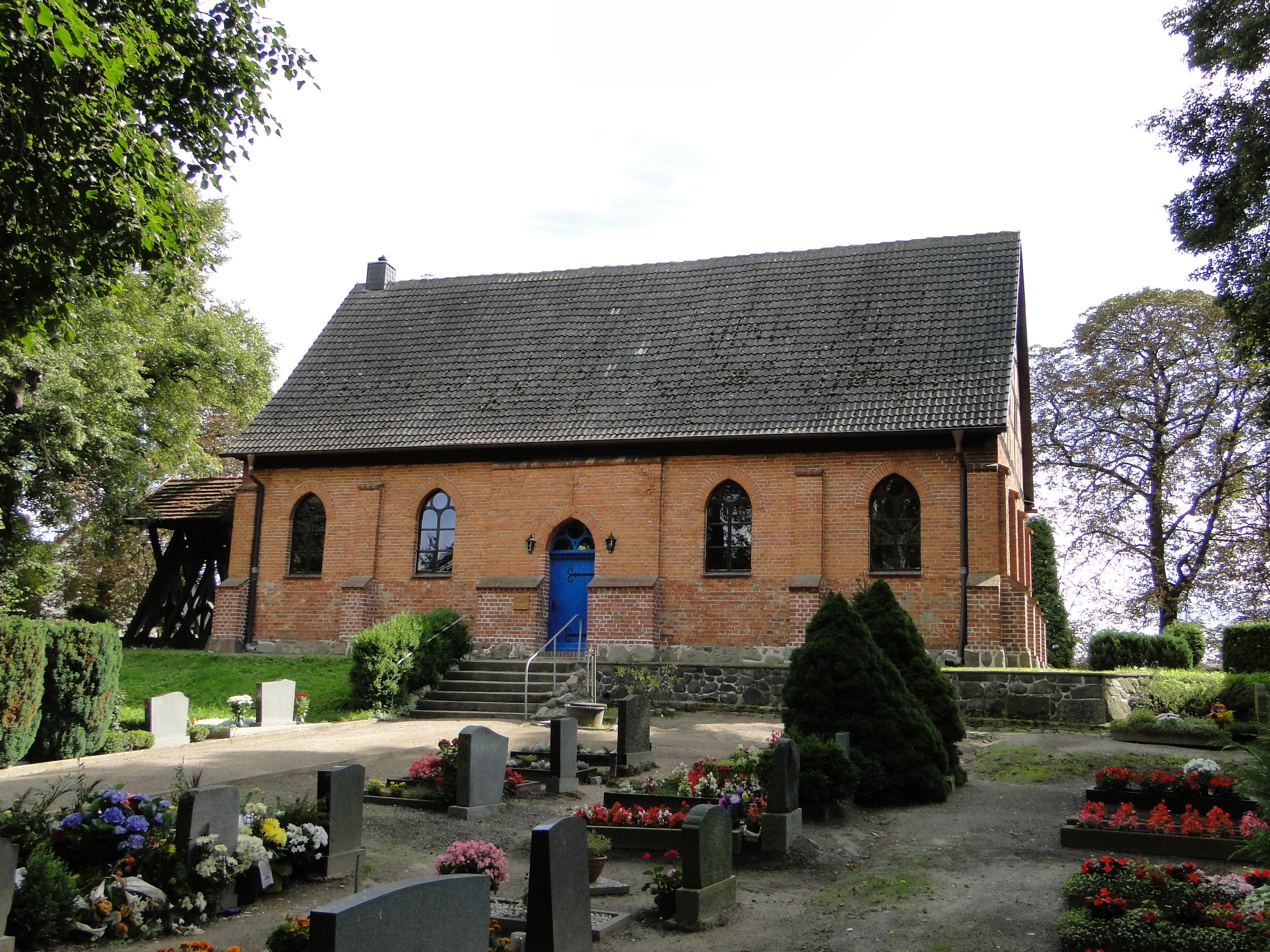 Church in Möllenhagen, district Müritz, Mecklenburg-Vorpommern, Germany